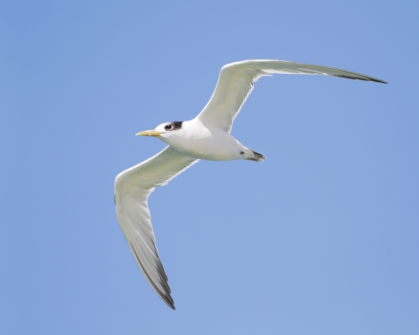 Greater Crested Tern (Thalasseus bergii) in flight, Marion Bay, Tasmania, Australia